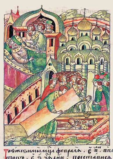 Death of Konstantin Vsevolodovich